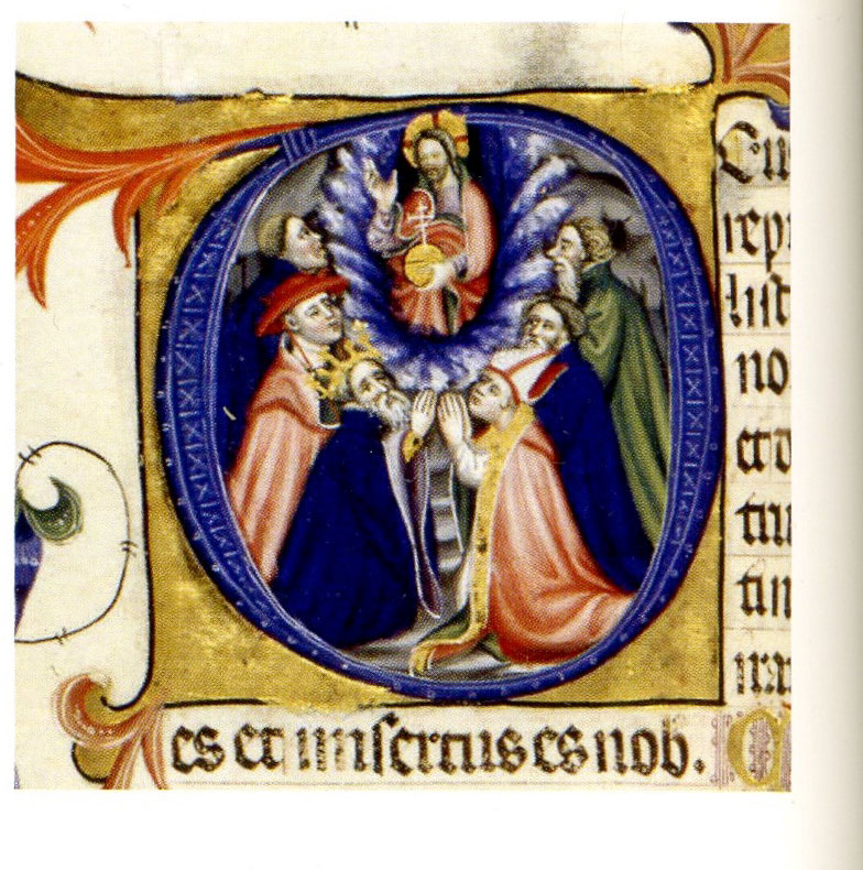 This is a depiction of a medieval manuscript